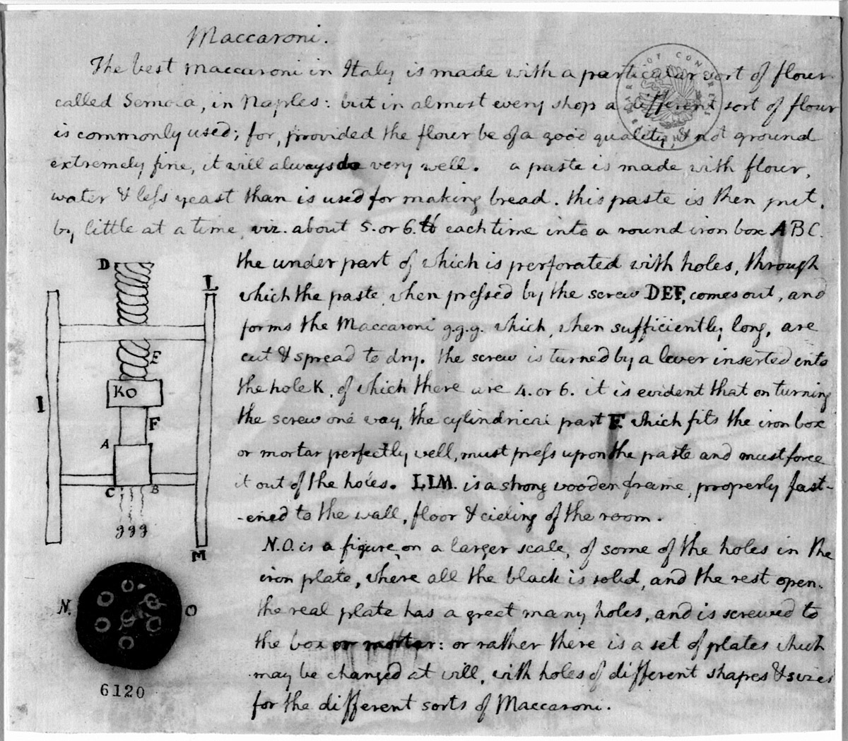 Drawing of a macaroni machine, with a sectional view showing holes through which dough could be extruded, by Thomas Jefferson. Jefferson became interested in pasta and other exotic foods as a result of his travels overseas. The Thomas Jefferson Papers, Library of Congress, Washington, D. C.